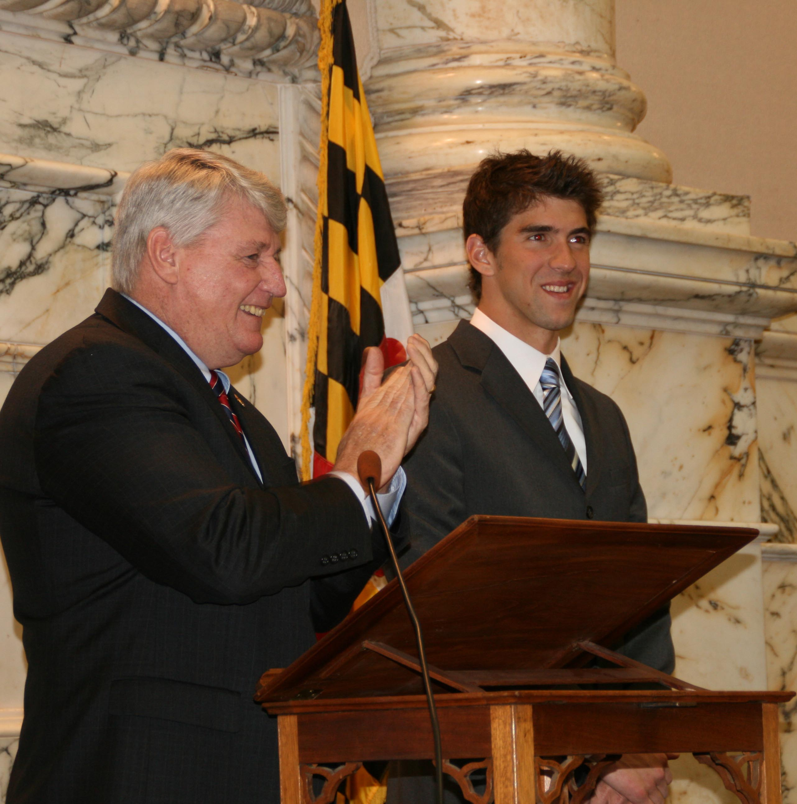 Michael phelps with house speaker Busch.